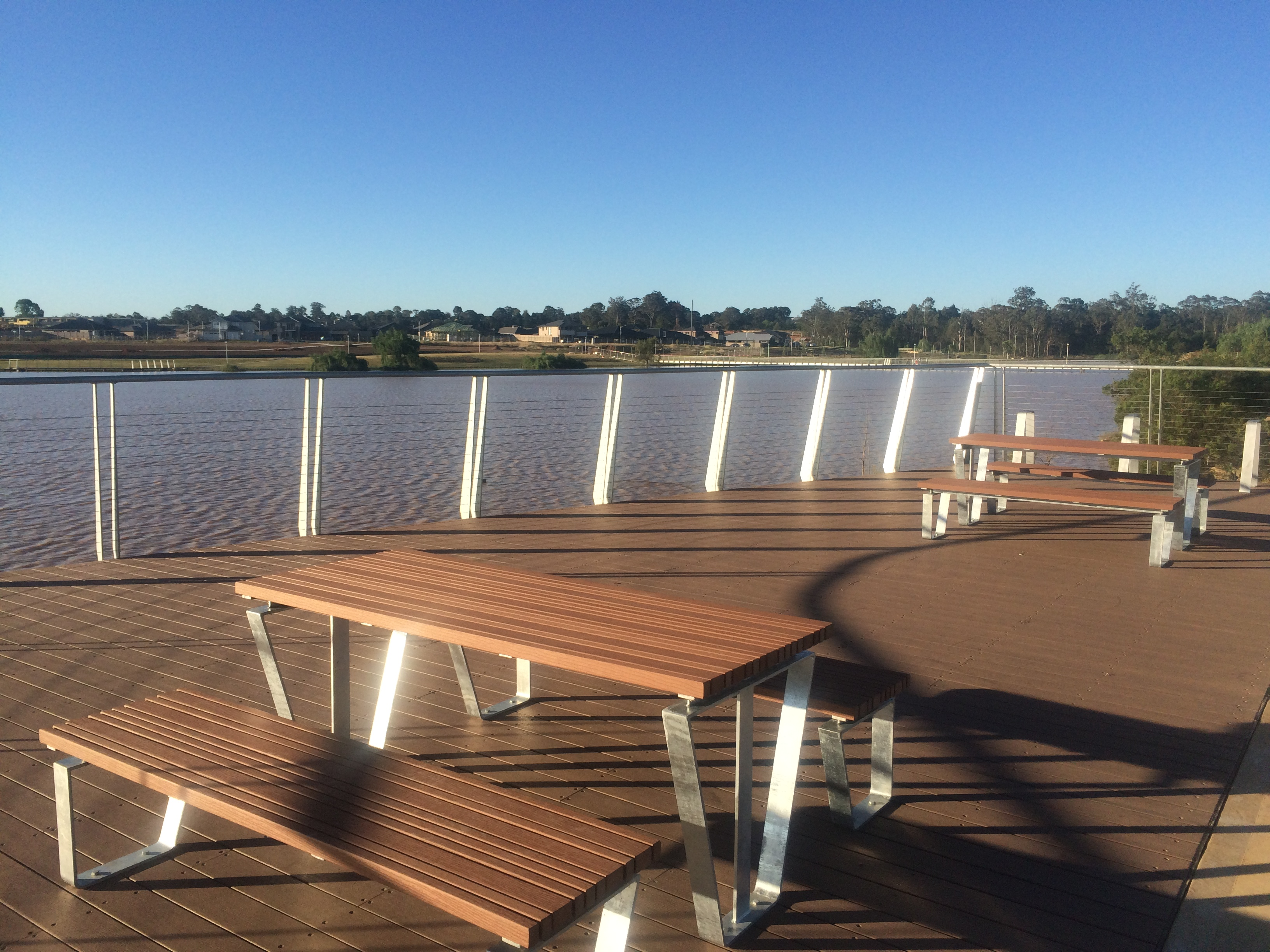 Springs Lake South Seating